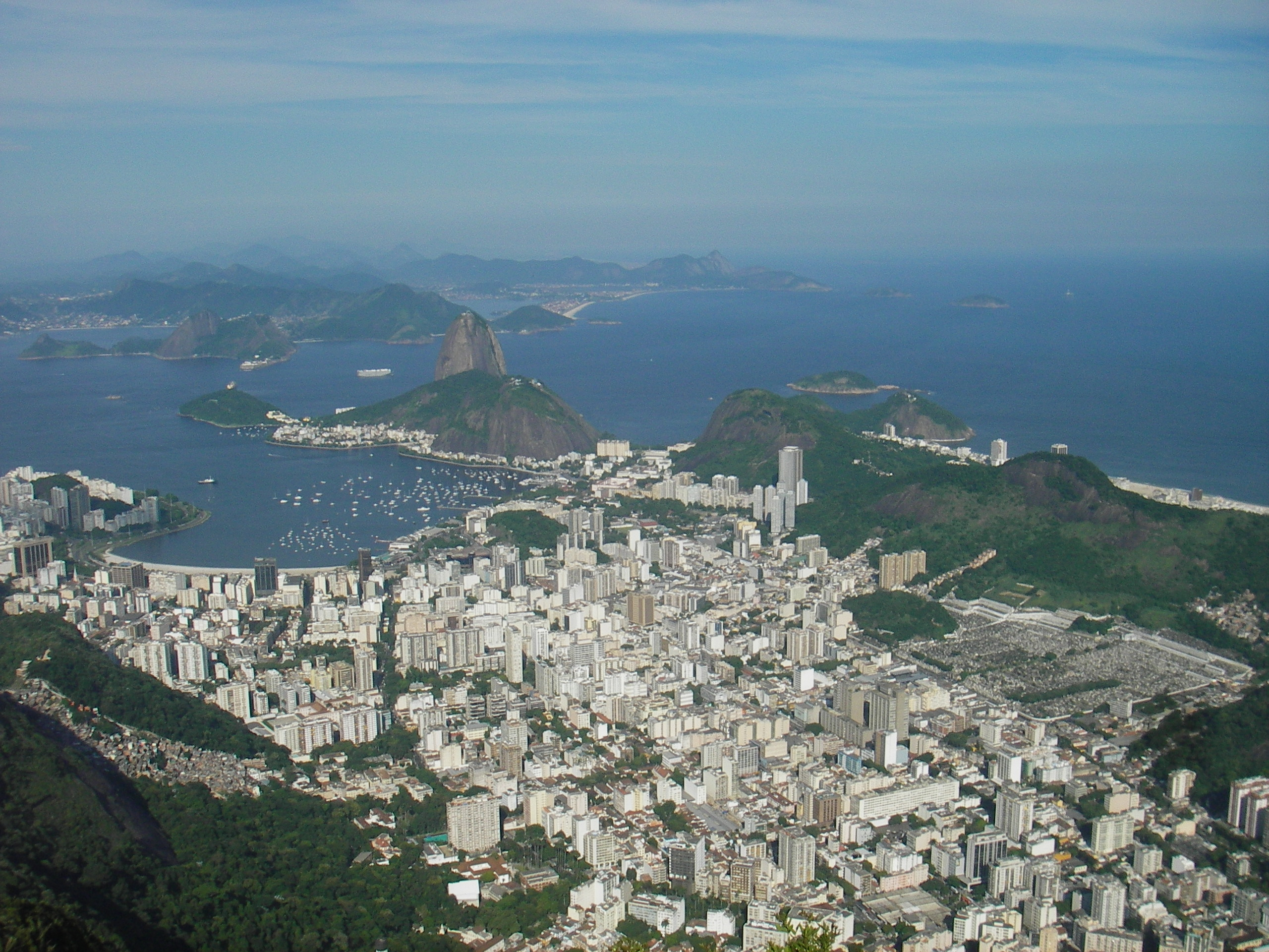 View of Rio de Janeiro from Corcovado Mountain.